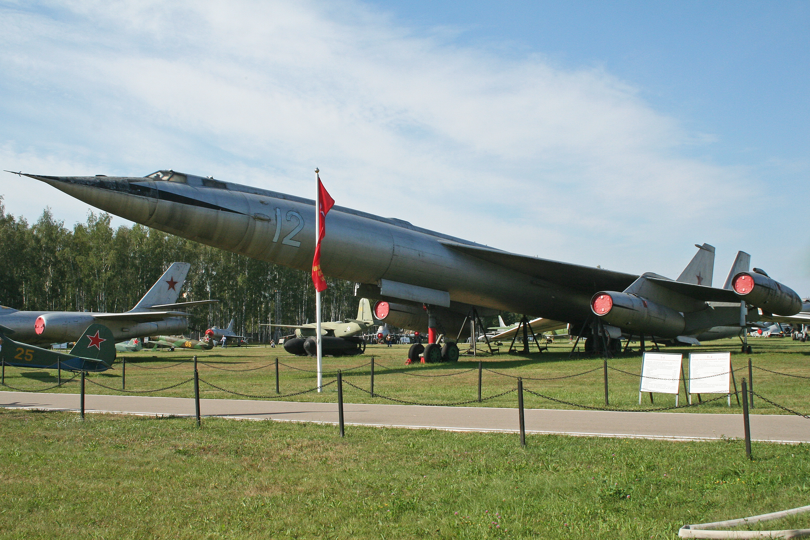 First flying in 1959, the M-50 was the prototype for a Soviet four-engined supersonic bomber. The type never went into production and this was the only one built. It was, however, an impressive looking aircraft which received much publicity and was given the NATO codename 'Bounder'. c/n 04. Russian Air Force Museum. Monino, Russia. 13-8-2012